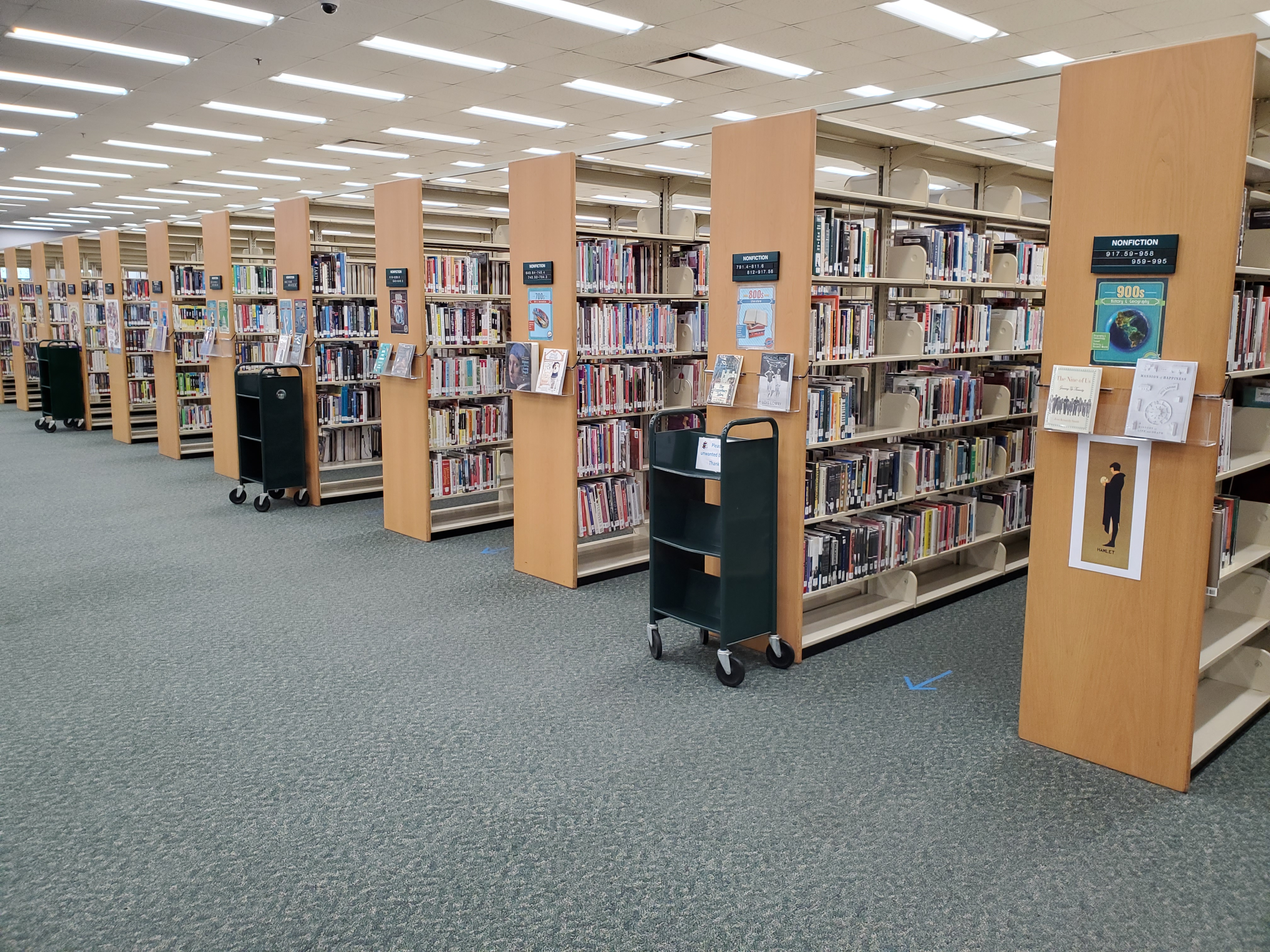 A photo of the bookshelves of the adult non-fiction section of the Temple Terrace Public Library